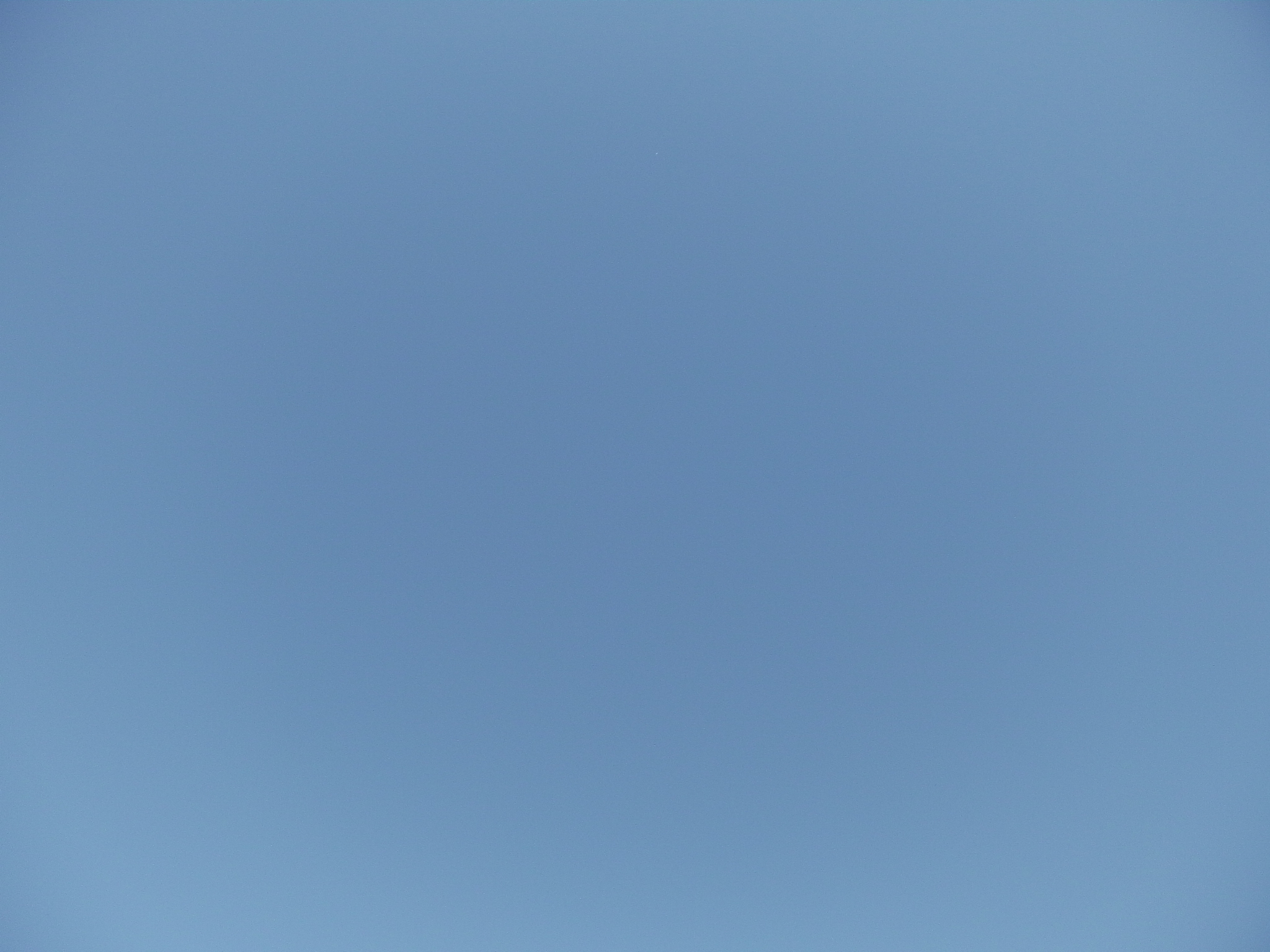 Cloudless blue sky over Kiyosato Highland. Taken at Keep Farm Shop in Hokuto City, Yamanashi Prefecture, Japan